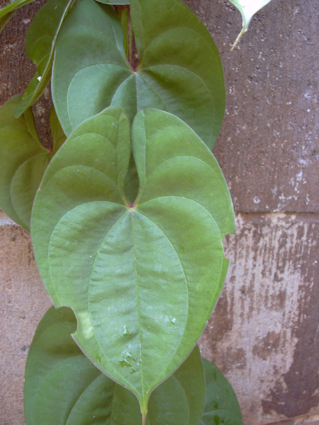 Dioscorea alata (leaves). Location: Maui, State nursery Kahului